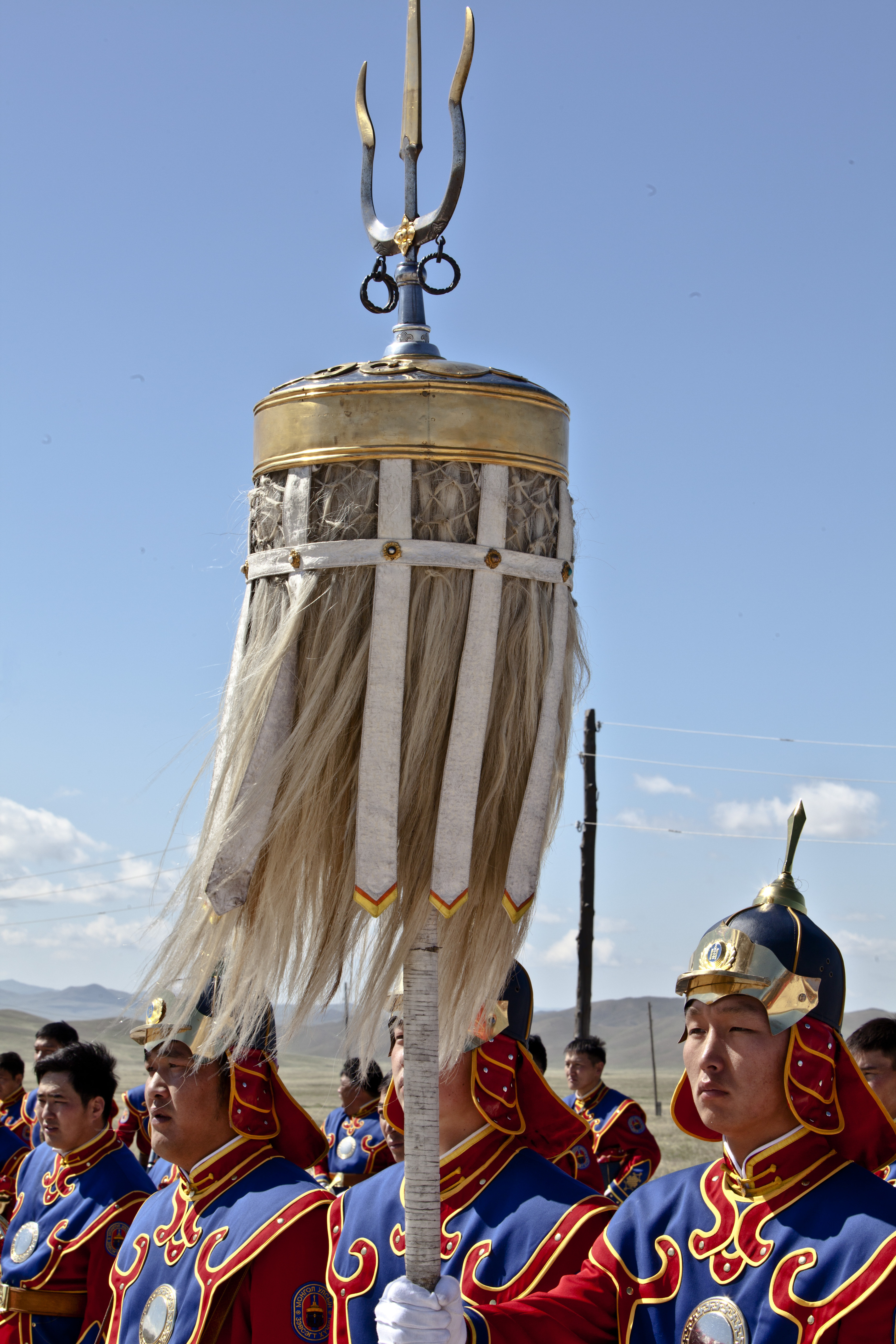 Mongolian state honor guard members stand in formation during the opening ceremony of Exercise Khaan Quest 2011 near Ulaanbaatar, Mongolia, July 31. Khaan Quest is a training exercise designed to strengthen the capabilities of U.S., Mongolian and other nations' forces in international peace support operations worldwide.